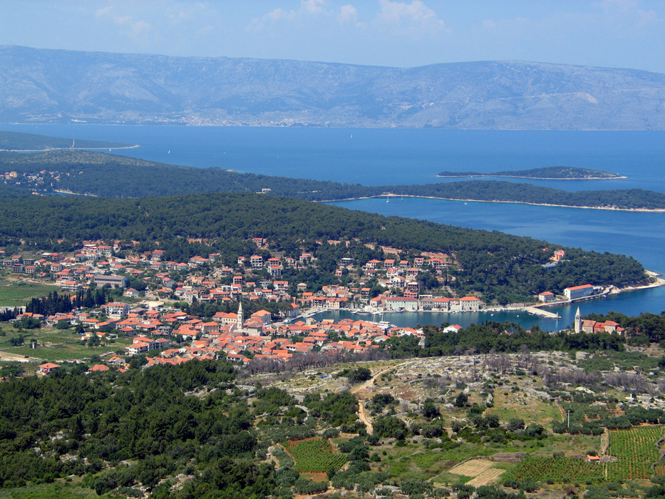 view from Illyrian tower Tor on the town of Jelsa (island Hvar), view from the South